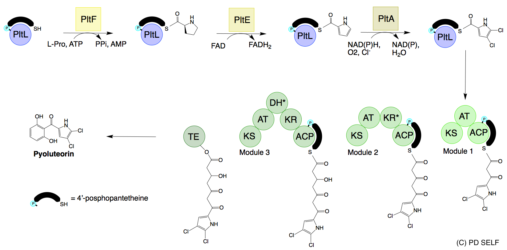 Scheme of pyoluteorin biosynthesis. Asterik denotes inactive domain